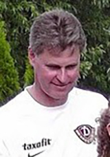 Ralf Loose in june 2011.